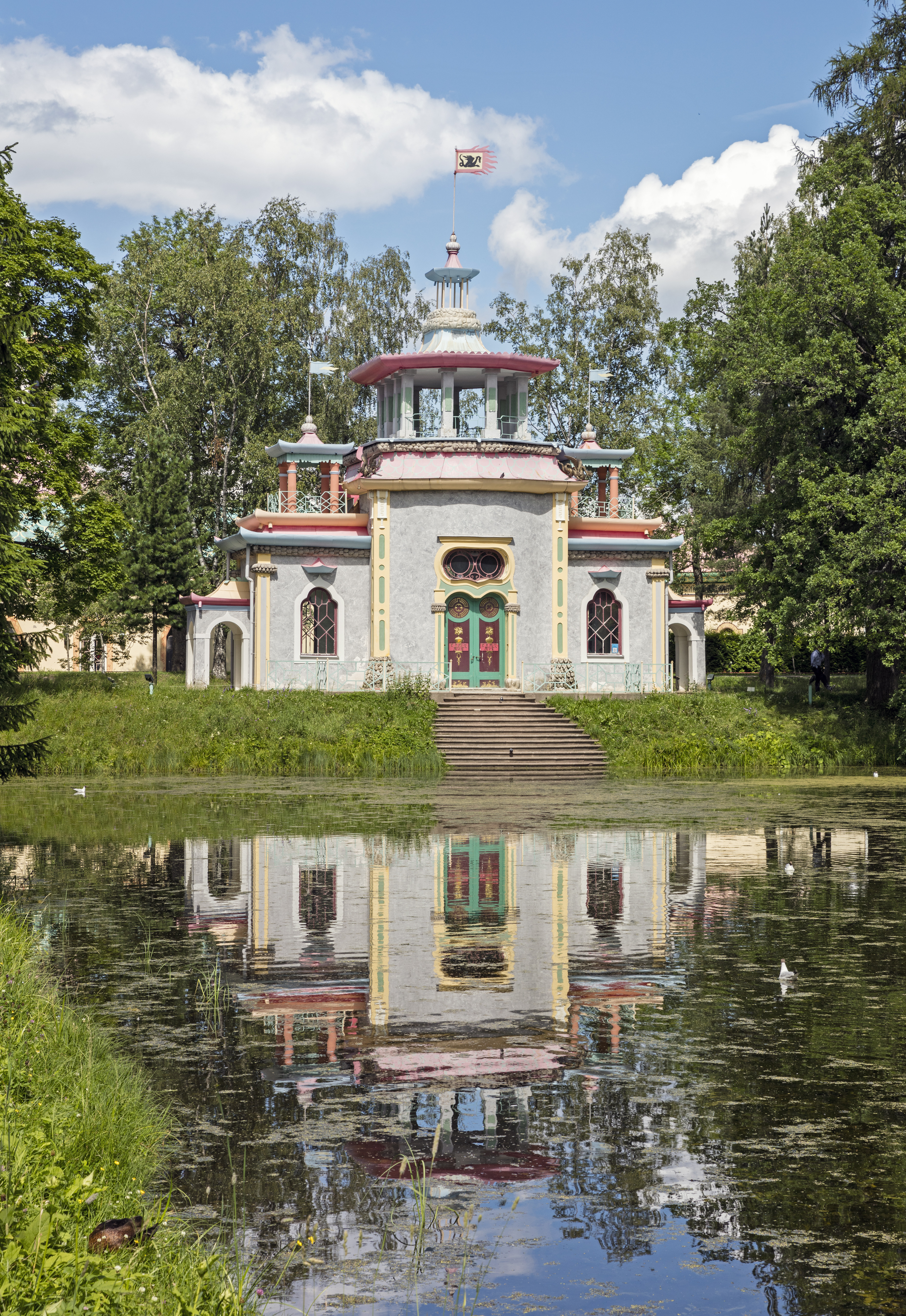 The Creaking Pagoda (Chinese Summer house) at Tsarskoe Selo, Russia was designed by Yury Felten and constructed from 1778–86.